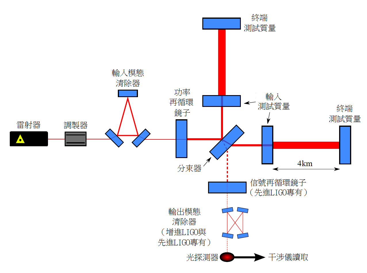 Simpliﬁed optical layout of a 4km LIGO interferometer during initial LIGO (without the output mode cleaner and the signal recycle mirror) and Enhanced LIGO (with the output mode cleaner and without the signal recycle mirror) and Advanced LIGO(with everything)